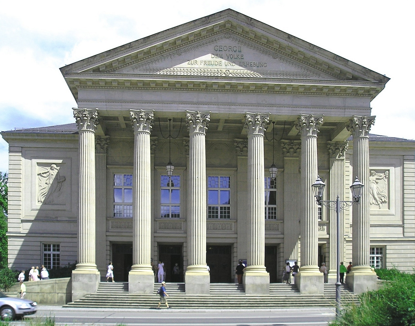 “Das Meininger Theater” - A famous old theatre in the city Meiningen, Germany, frontview.